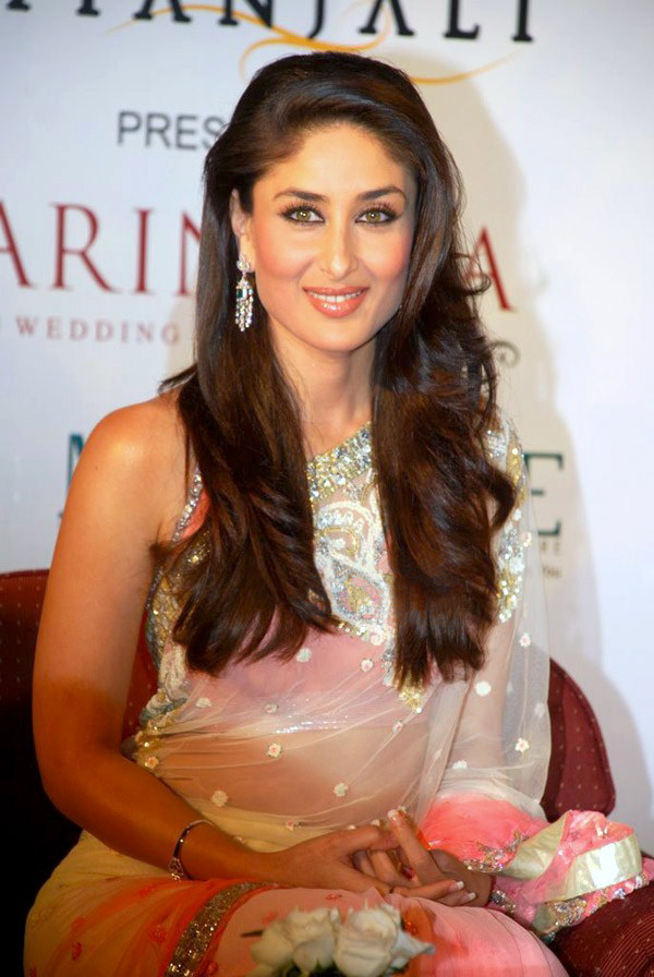 Indian actress Kareena Kapoor at the launch of Gitanjali's jewellery collection, "Parineeta"